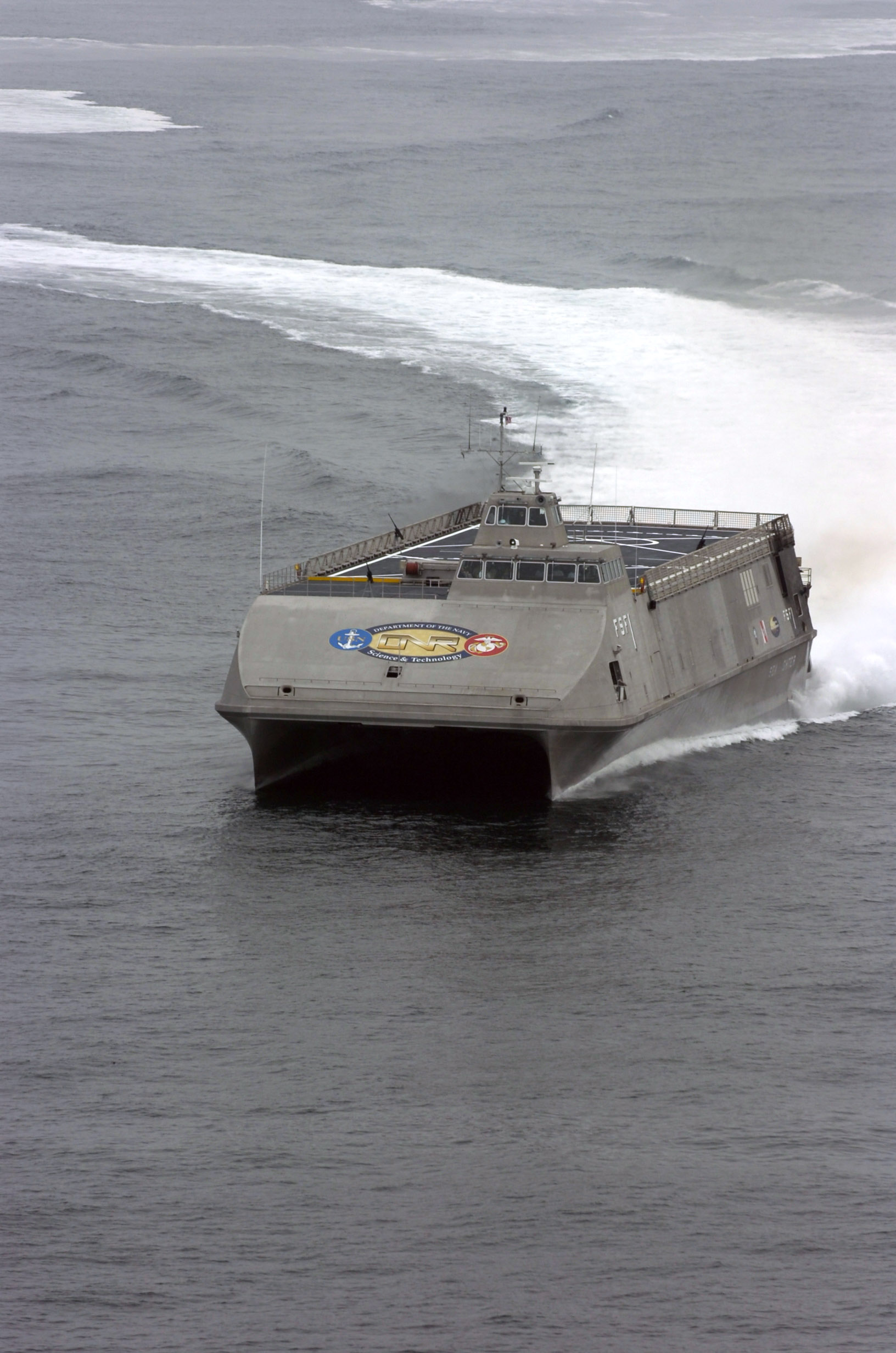 Pacific Ocean (Aug. 1, 2005) - The Littoral Surface Craft-Experimental LSC(X), developed by the Office of Naval Research and christened Sea Fighter (FSF 1), arrives at her new homeport of San Diego Calif. The high-speed aluminum catamaran will test a variety of technologies that will allow the Navy to operate in littoral waters. With a base crew of 26 people, Sea Fighter will also provide a platform for the evaluation of minimum manning concepts on future naval surface ships.